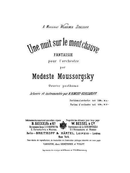 Title page of the score of Rimsky-Korsakov's edition of 'A Night on the Bare Mountain', published by V. Bessel & Co., 1886